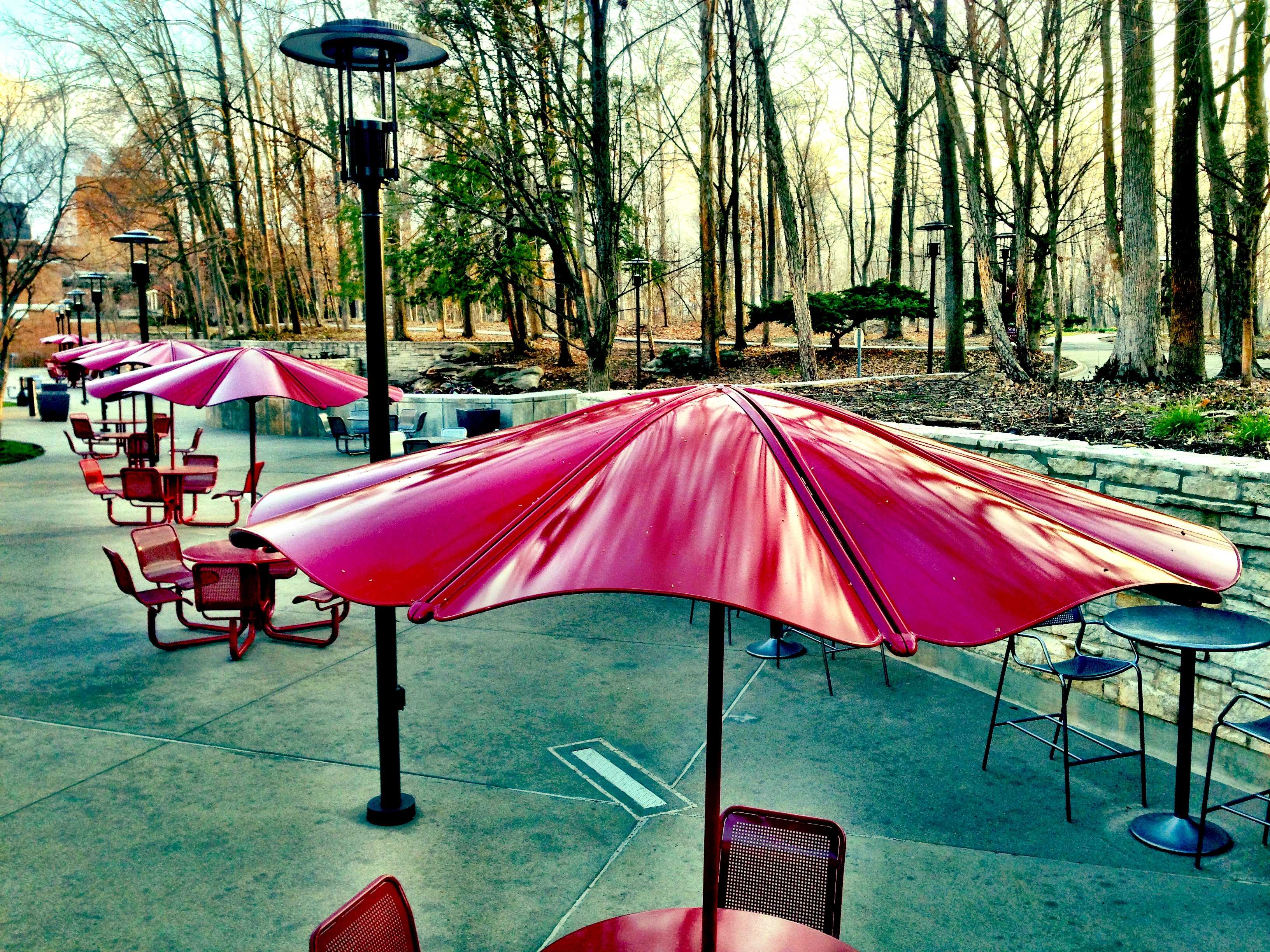 Student Center Patio